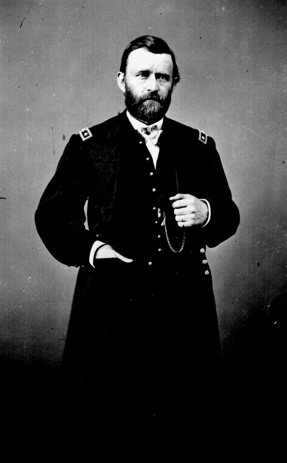 Lt. Gen. Ulysses S. Grant; three-quarter-length, standing. Photographed by Mathew B. Brady. source